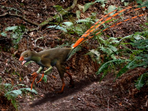 Epidexipteryx